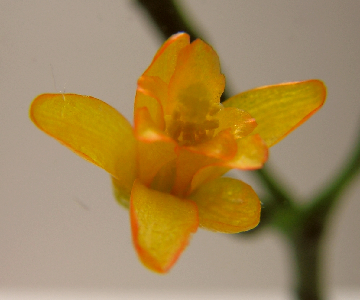 The flower of Hatiora salicornioides (enlarged).